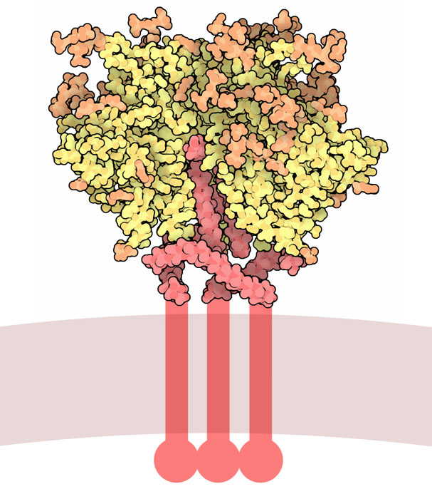 Illustration of HIV Envelope Glycoprotein